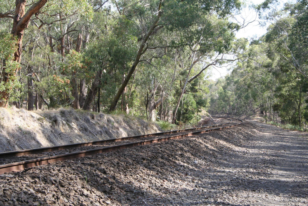 Geelong - Ballarat railway line, near Lal Lal, Victoria, Australia